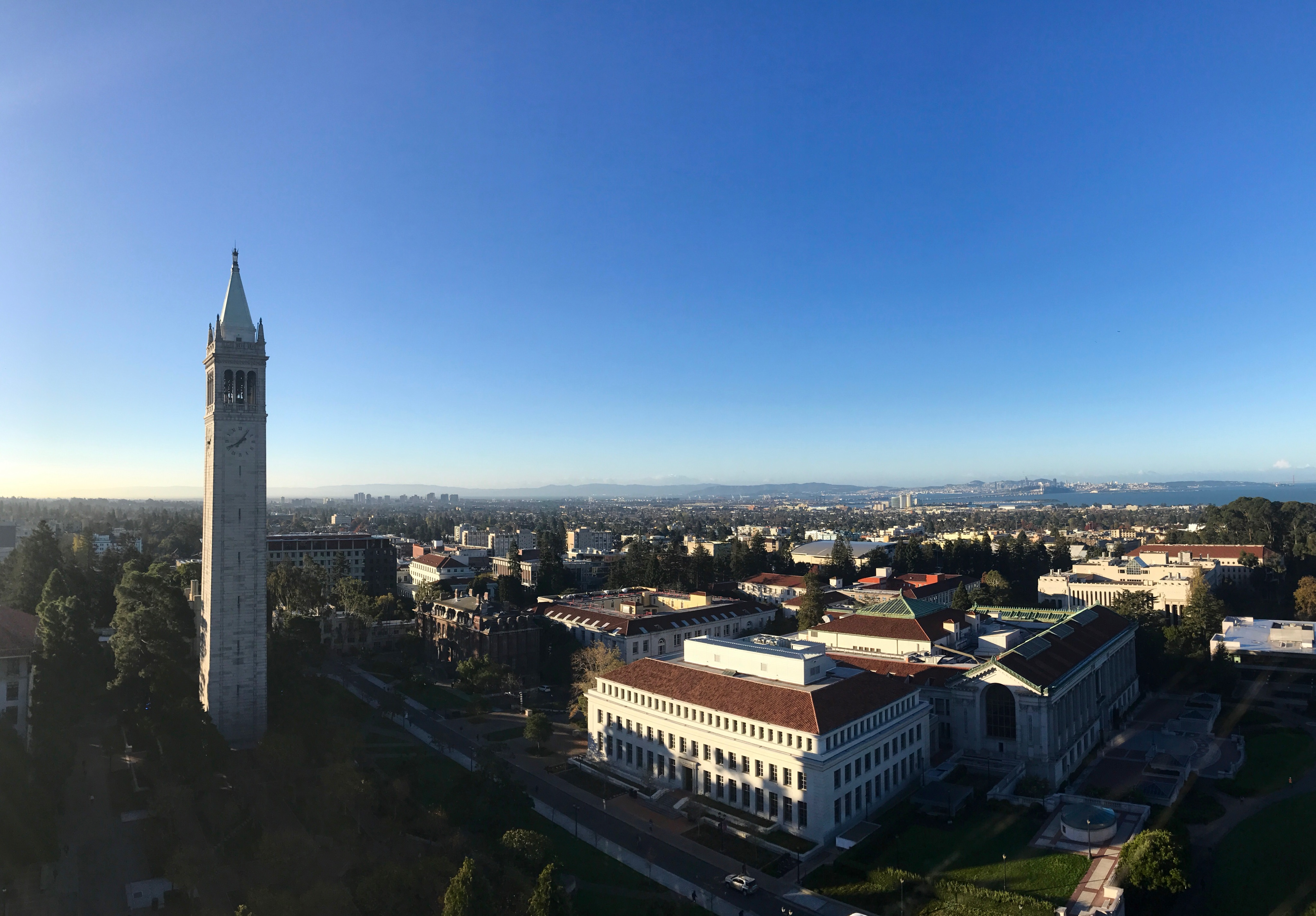 View of campus from Evans Hall.